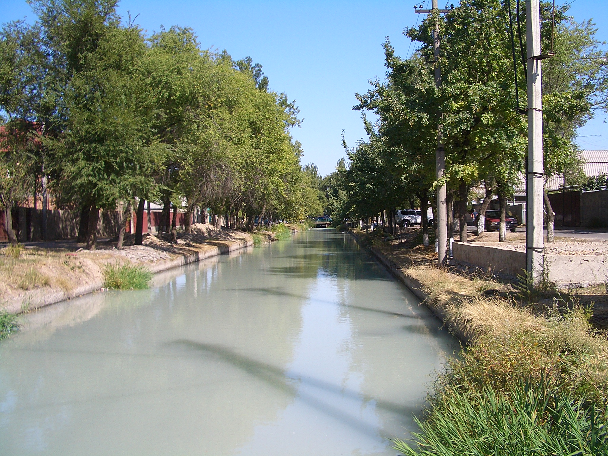 Greater Eastern Chuy Canal in Bishkek (around Yunusualiev St).